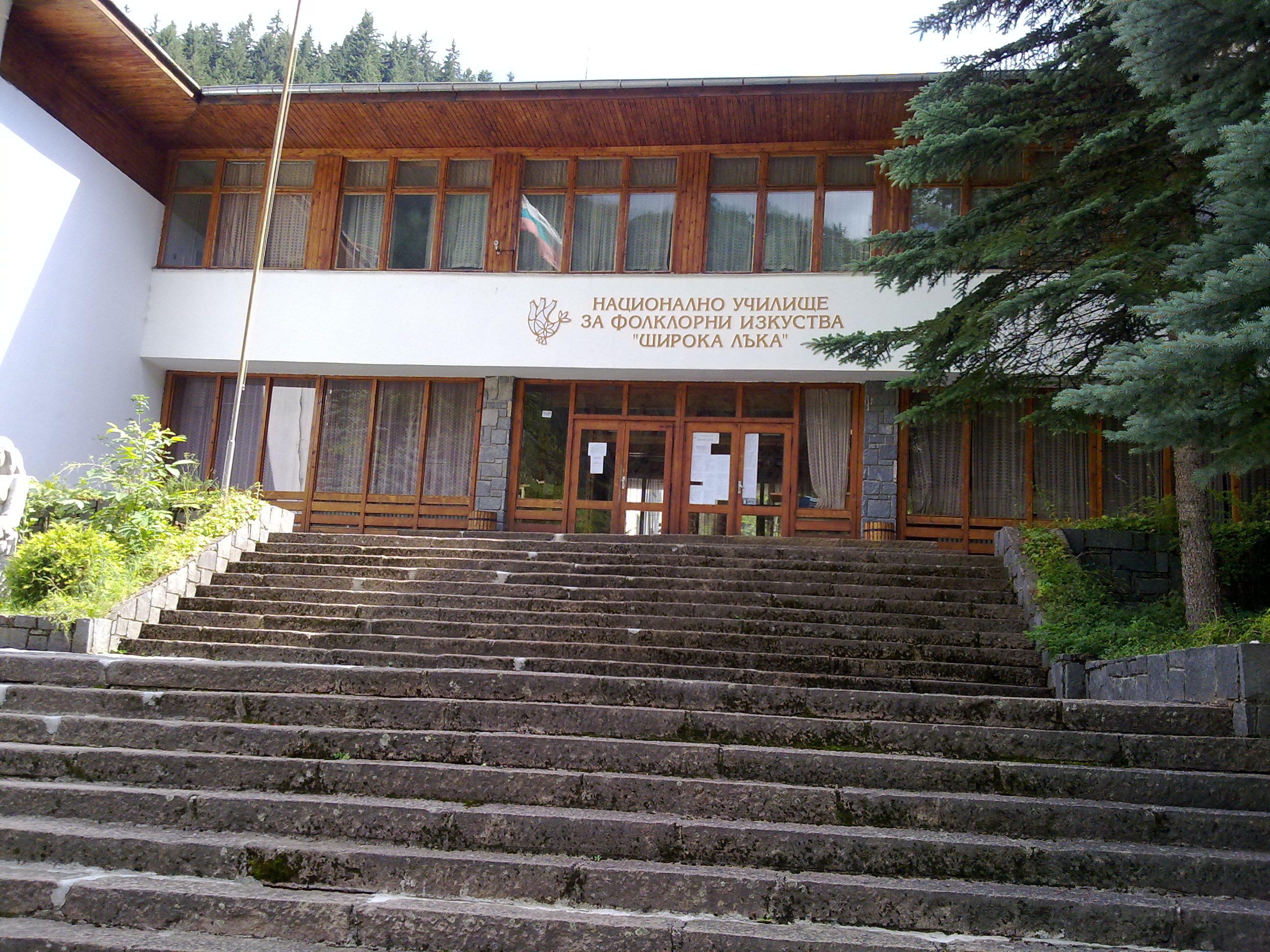 The school of folkloric singing of shiroka laka